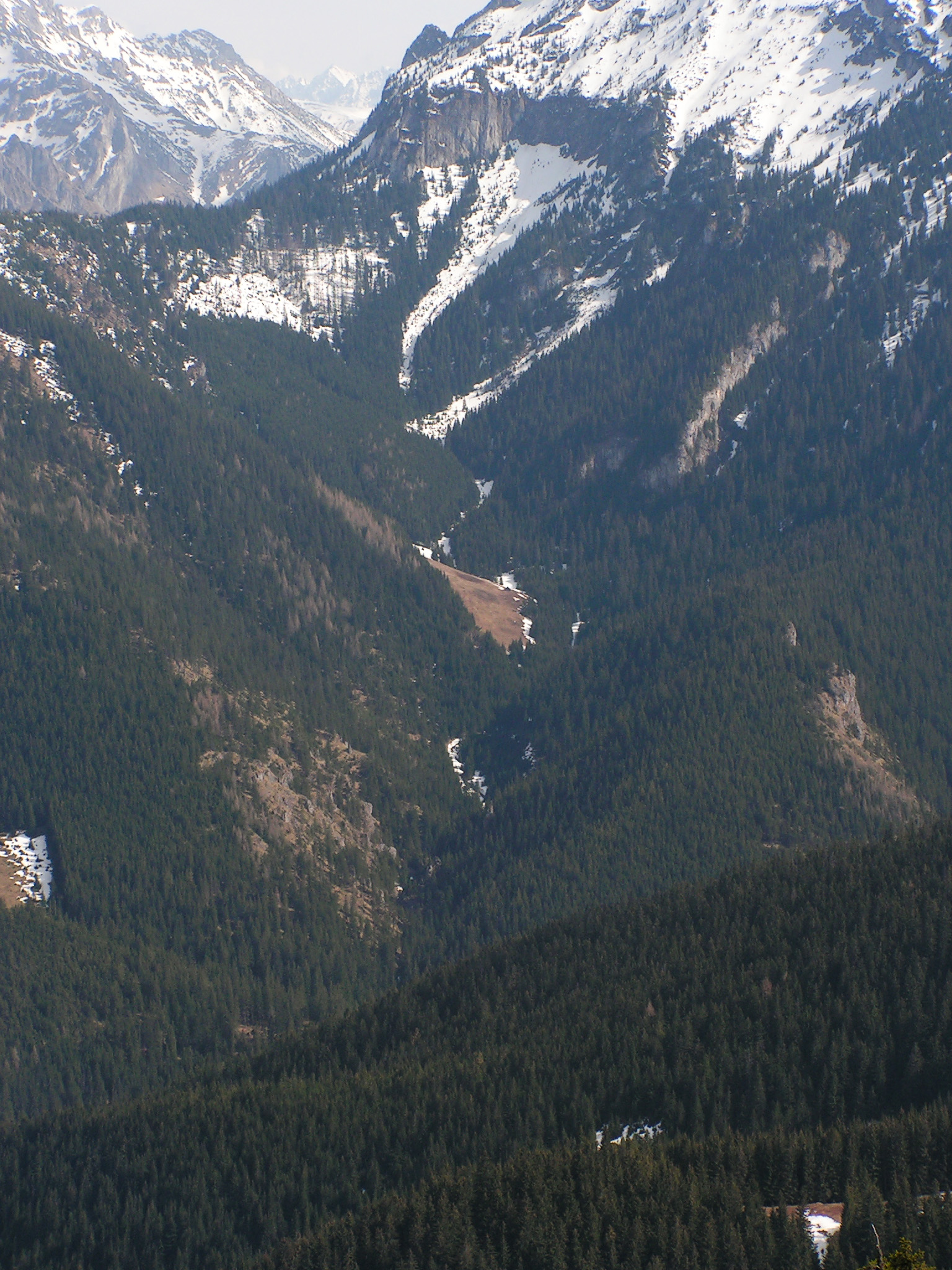 Dolina Dudowa with Wyżnia Dudowa Rówień meadow.